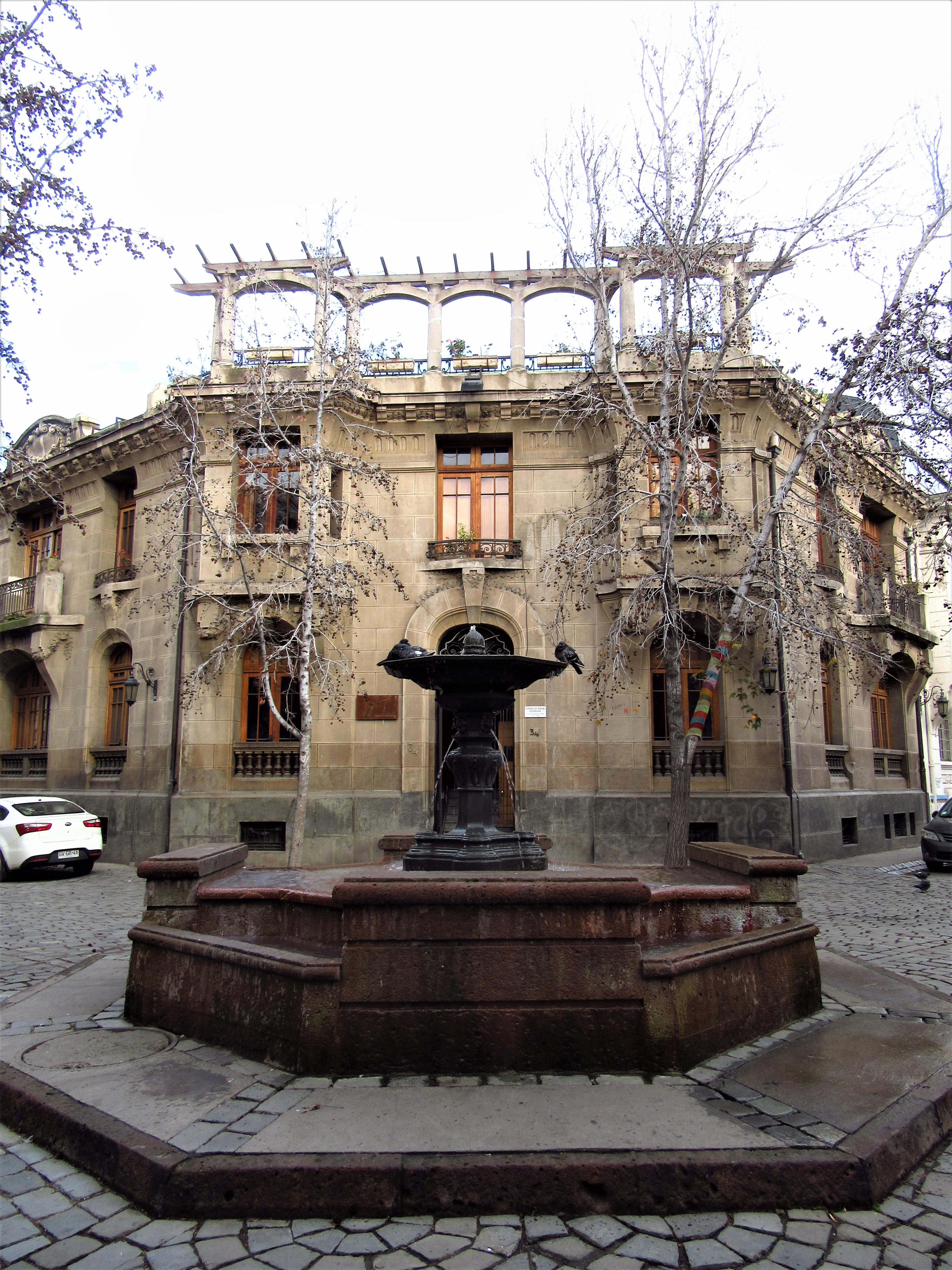 2017 in Santiago de Chile